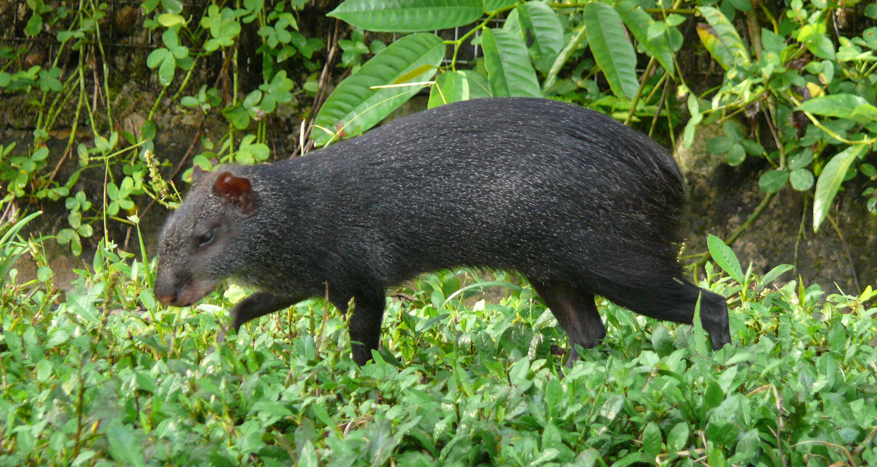 Black Agouti (Dasyprocta fuliginosa)